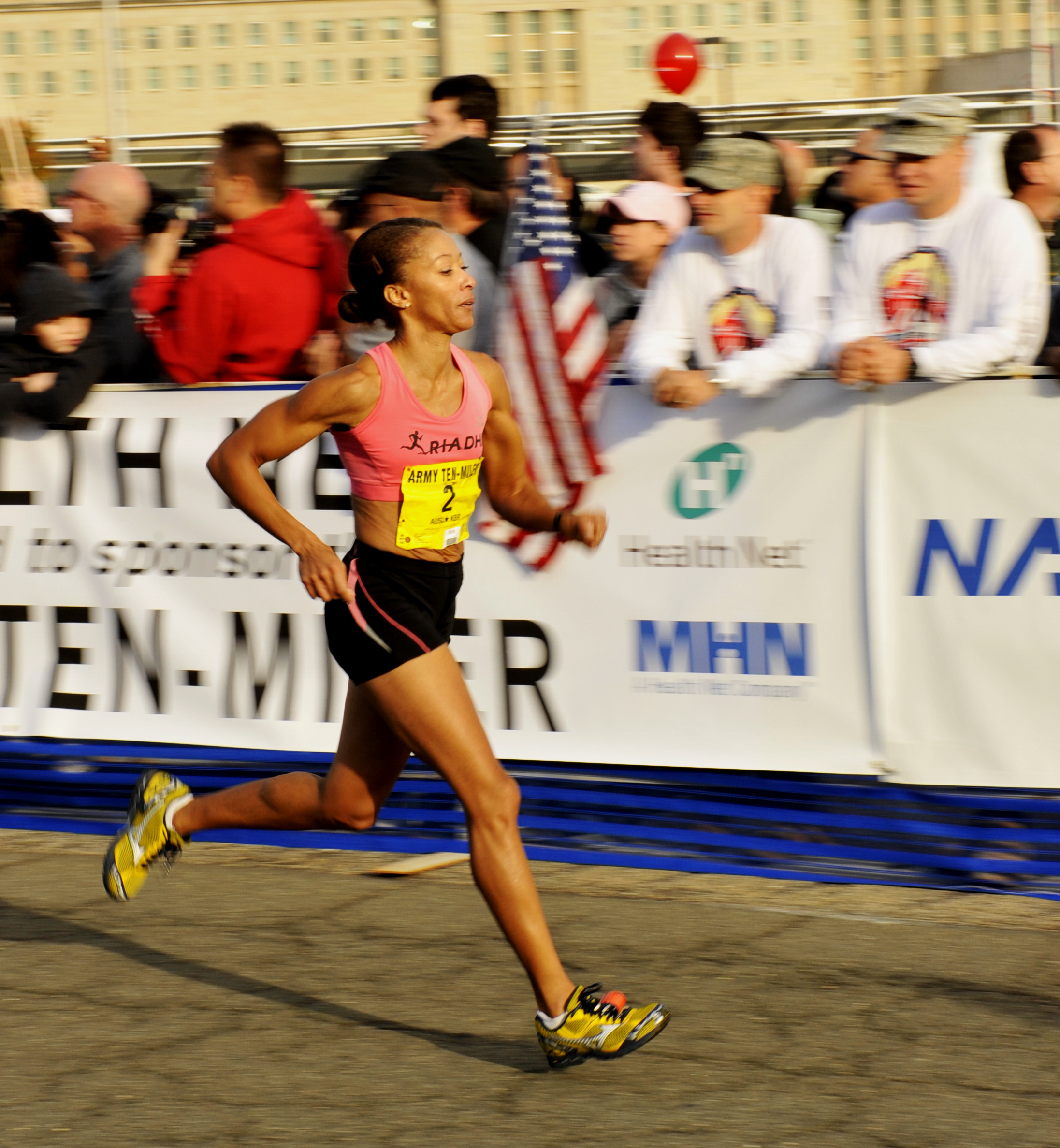 A photo of Alisa Harvey participating in the Army Ten-Miler.